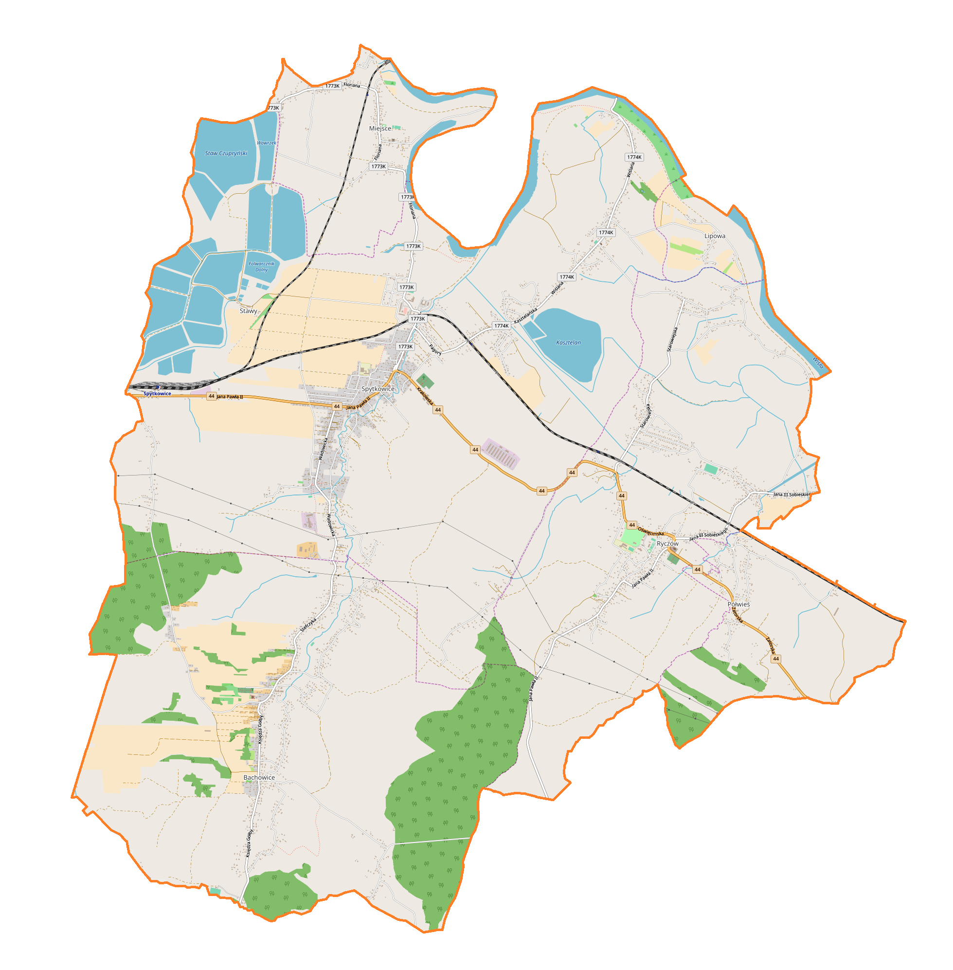 Location map